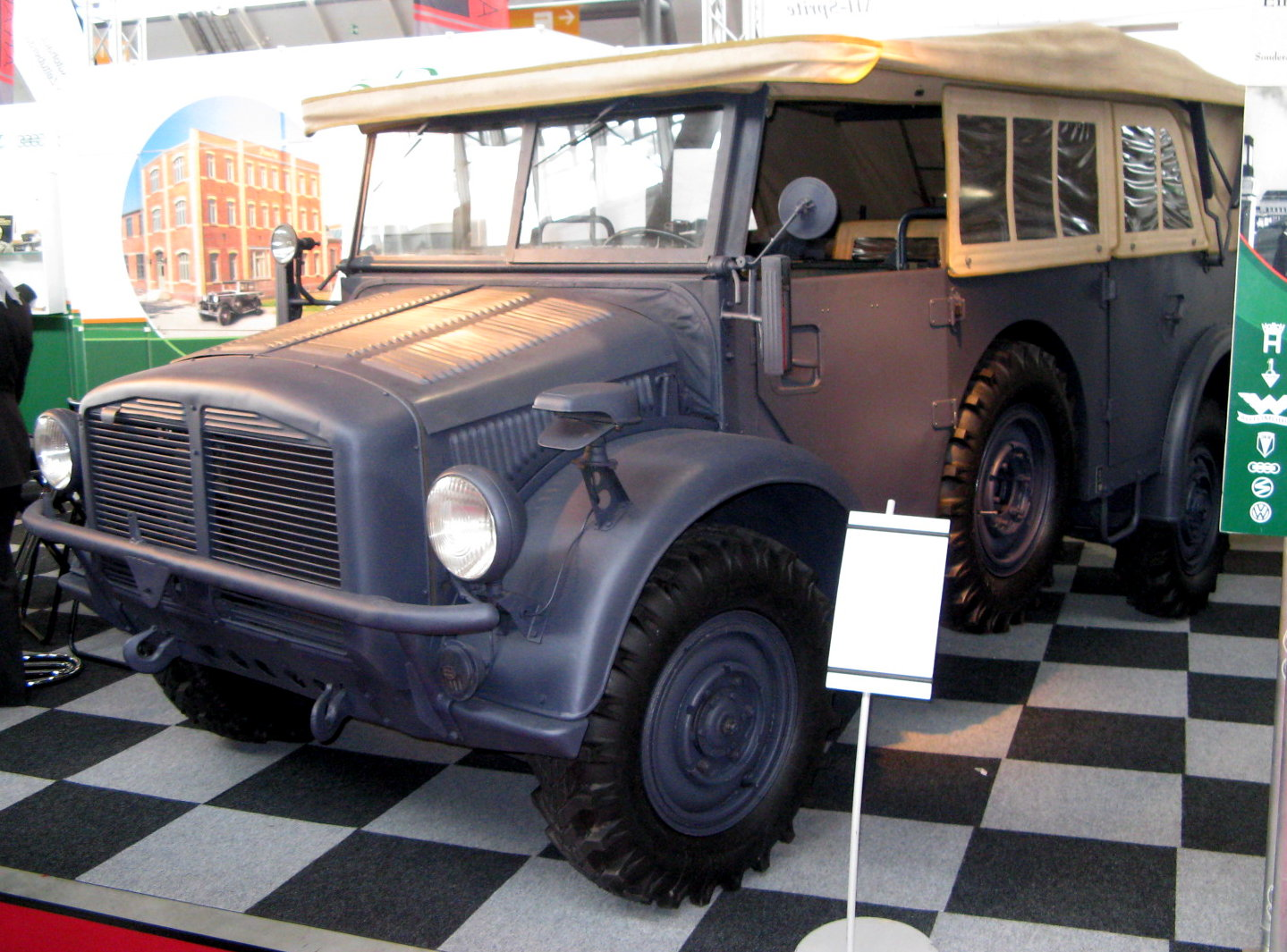 1940 Horch 108 1b